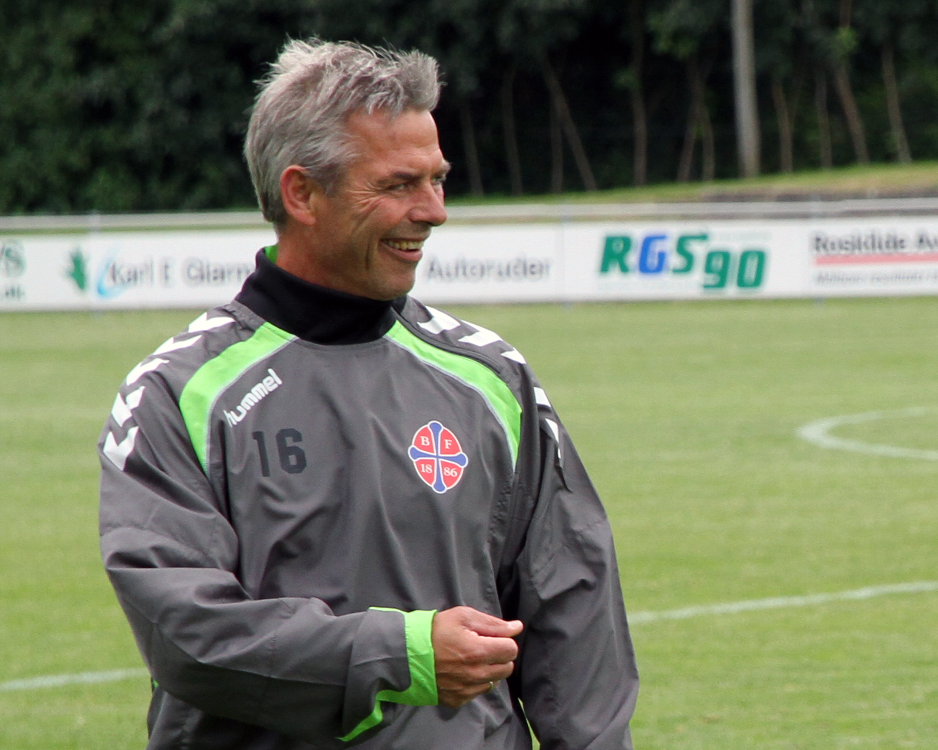 Henrik Jensen during his first match in charge of BK Frem